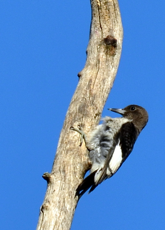 Showing a bit of leg. Glacial Park McHenry County, IL